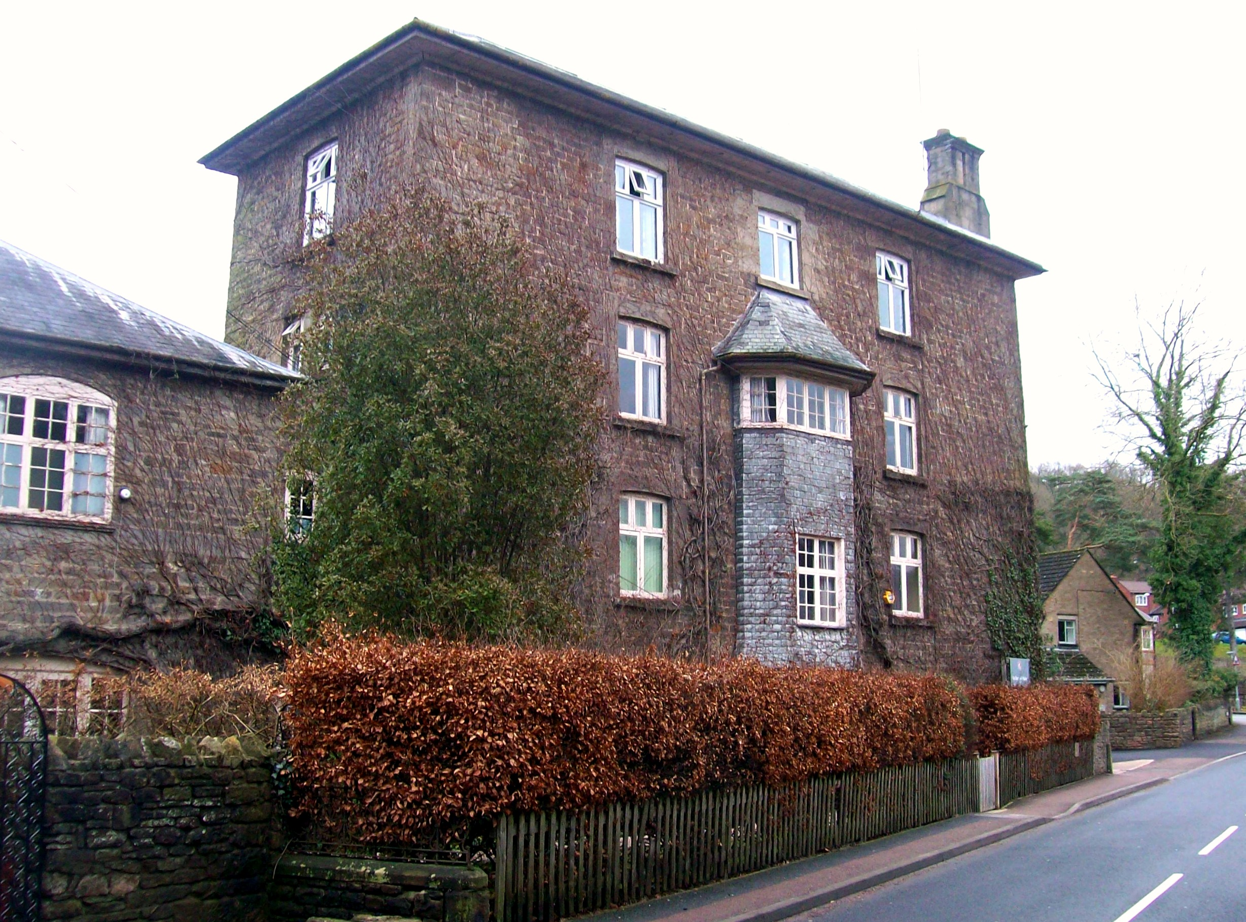 The Dean Field Study Centre, in Parkend, Forest of Dean.